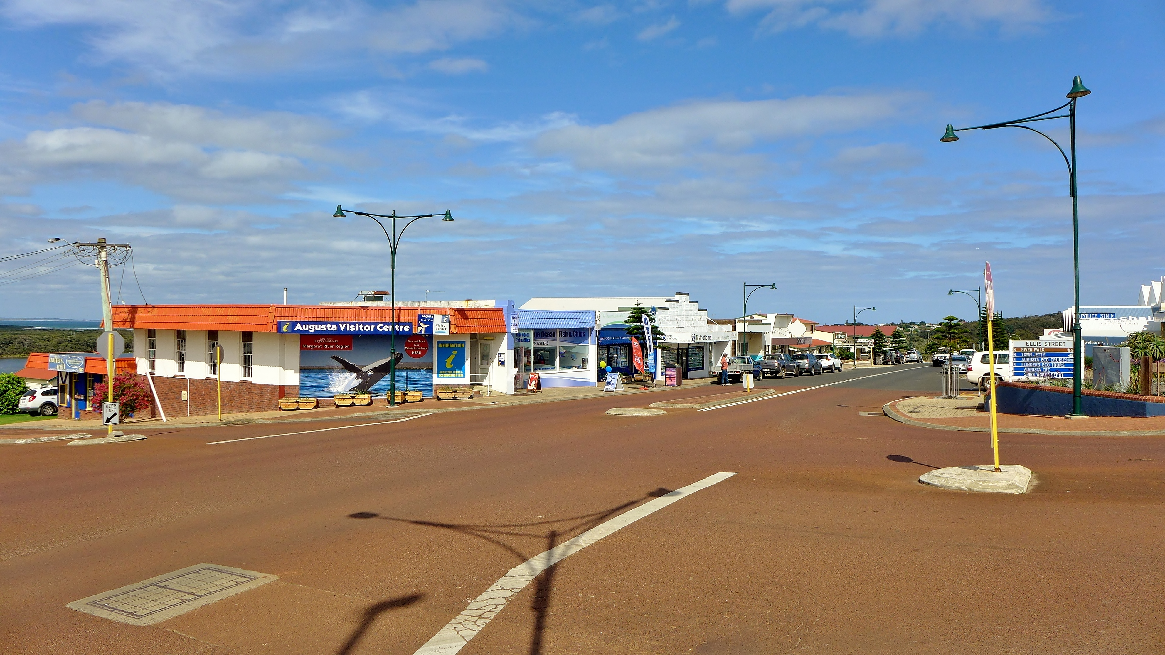 View of Blackwood Avenue, the main street of Augusta, Western Australia.